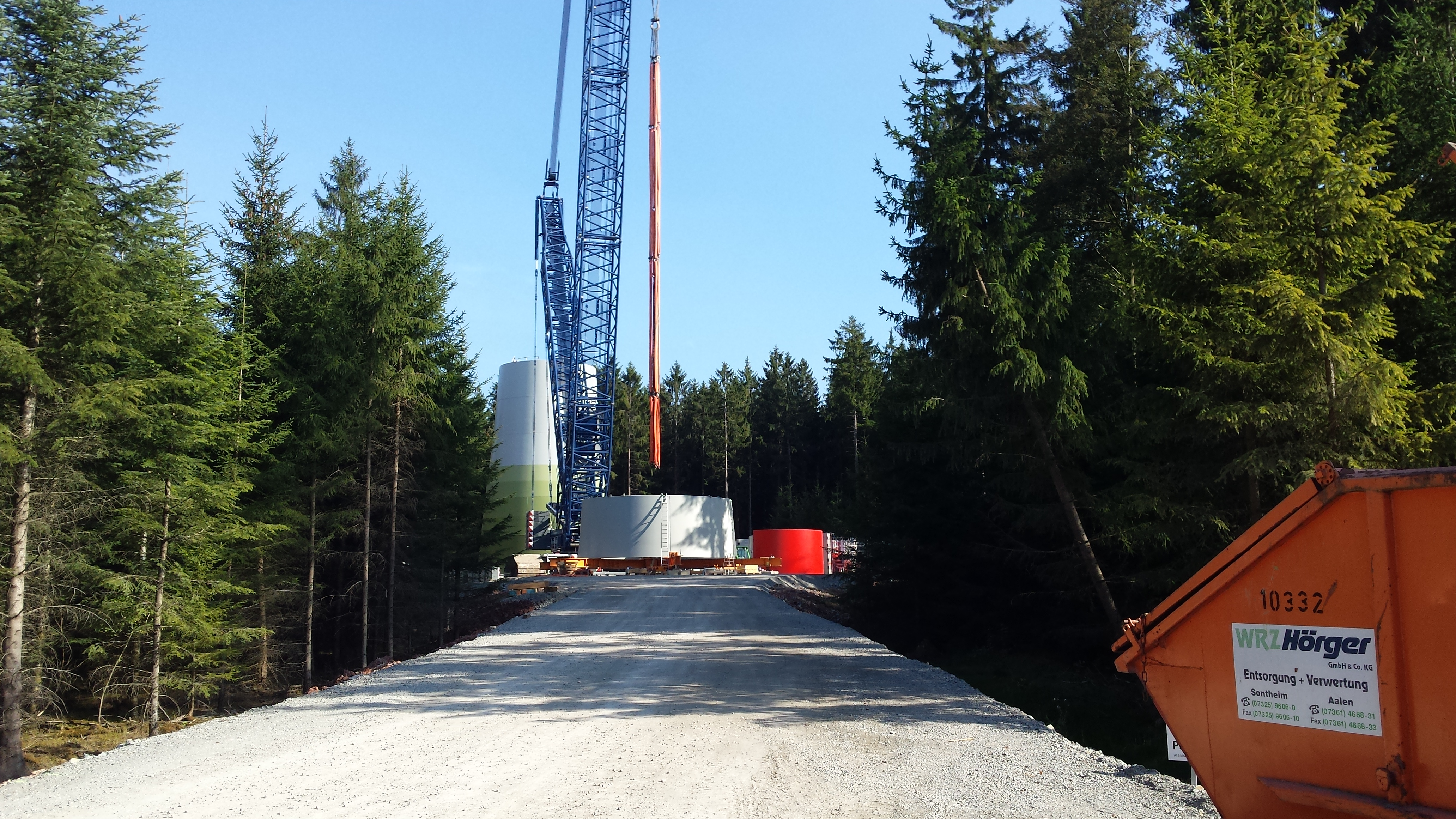 Building a wind turbine in the Virngrund forest, Baden-Württemberg, Germany